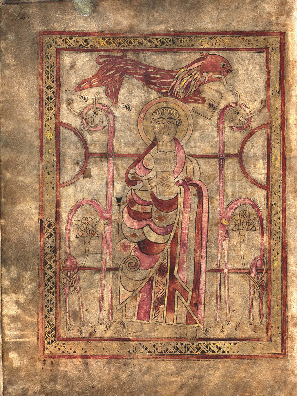 Portrait of St Mark (page 142). One of two surviving portrait pages in the St Chad Gospels (circa 730). For more information, see Manuscripts of Lichfield Cathedral